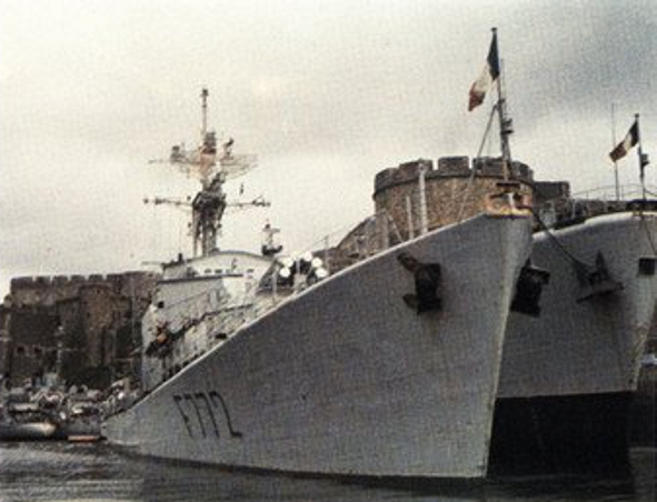 The French Marine Nationale Le Normand-class frigate Le Breton (F772) at Brest, France, in 1969.